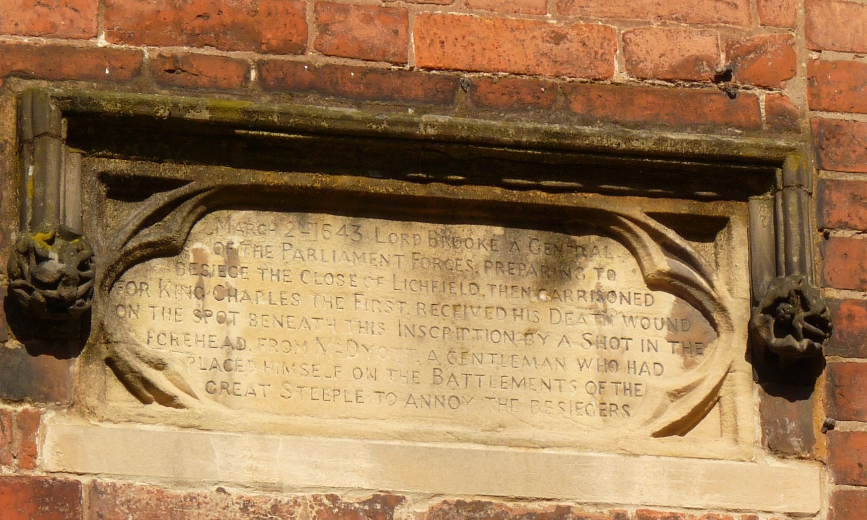 Photograph of plaque commemorating the death of Parliamentary general Lord Brooke in Lichfield in March 1643